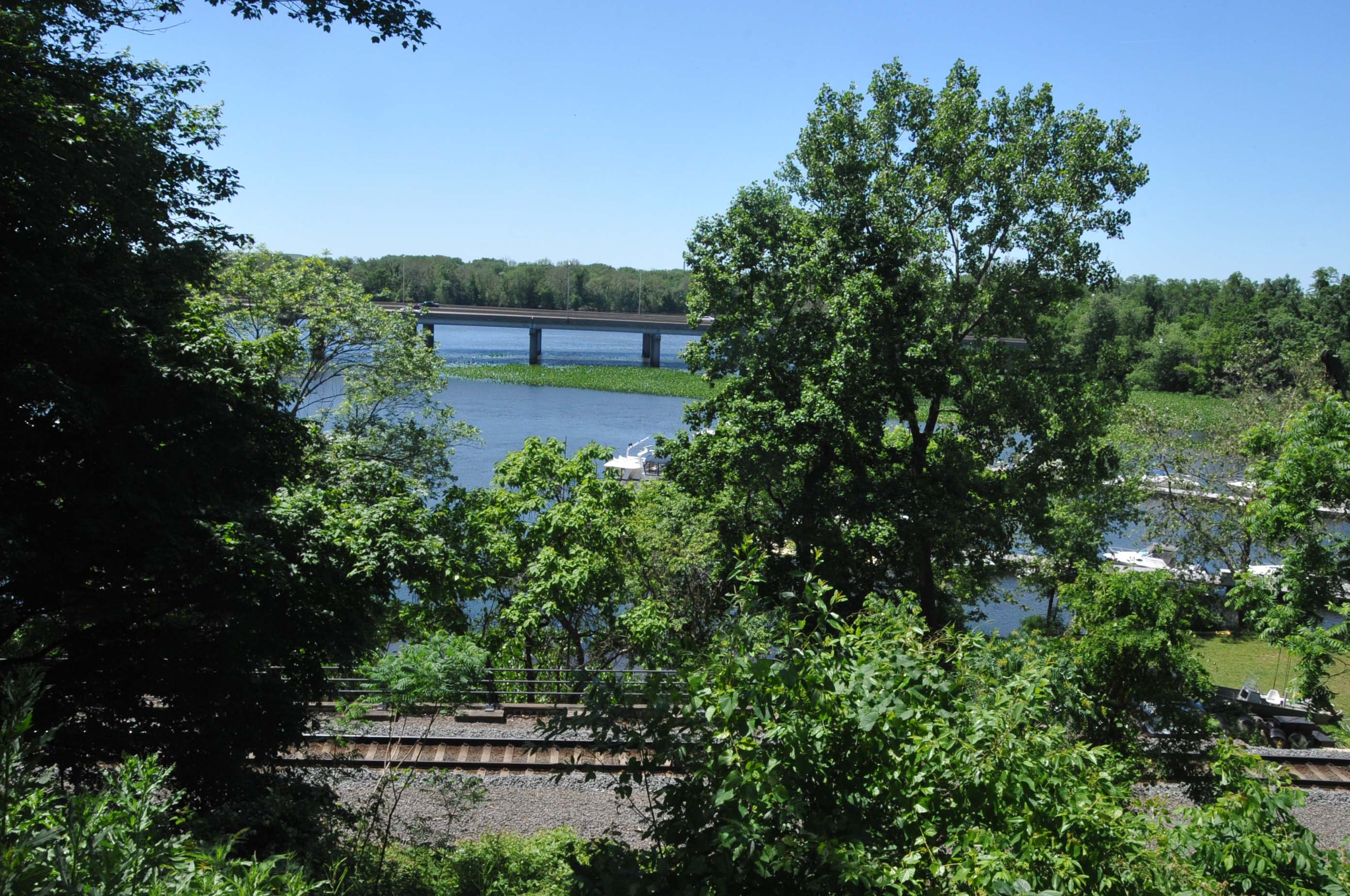 CROSSWICKS CREEK III SITE; HERE WHERE CROSSWICKS CREEK AND THE DELAWARE RIVER JOIN 44 CONTINENTAL SHIPS WERE DESTROYED IN A BRITISH RAID IN 1778 WHERE THEY WERE TRAPPED FOLLOWING THE BRITISH CAPTURE OF PHILADELPHIA. TWO OF THESE SHIPS STILL LIE UNDER THE WATER OF CROSSWICKS CREEK. A MONUMENT HAS BEEN ERECTED BY THE COLONIAL DAMES AT THE END OF PRINCE STREET OVERLOOKING THE SITE